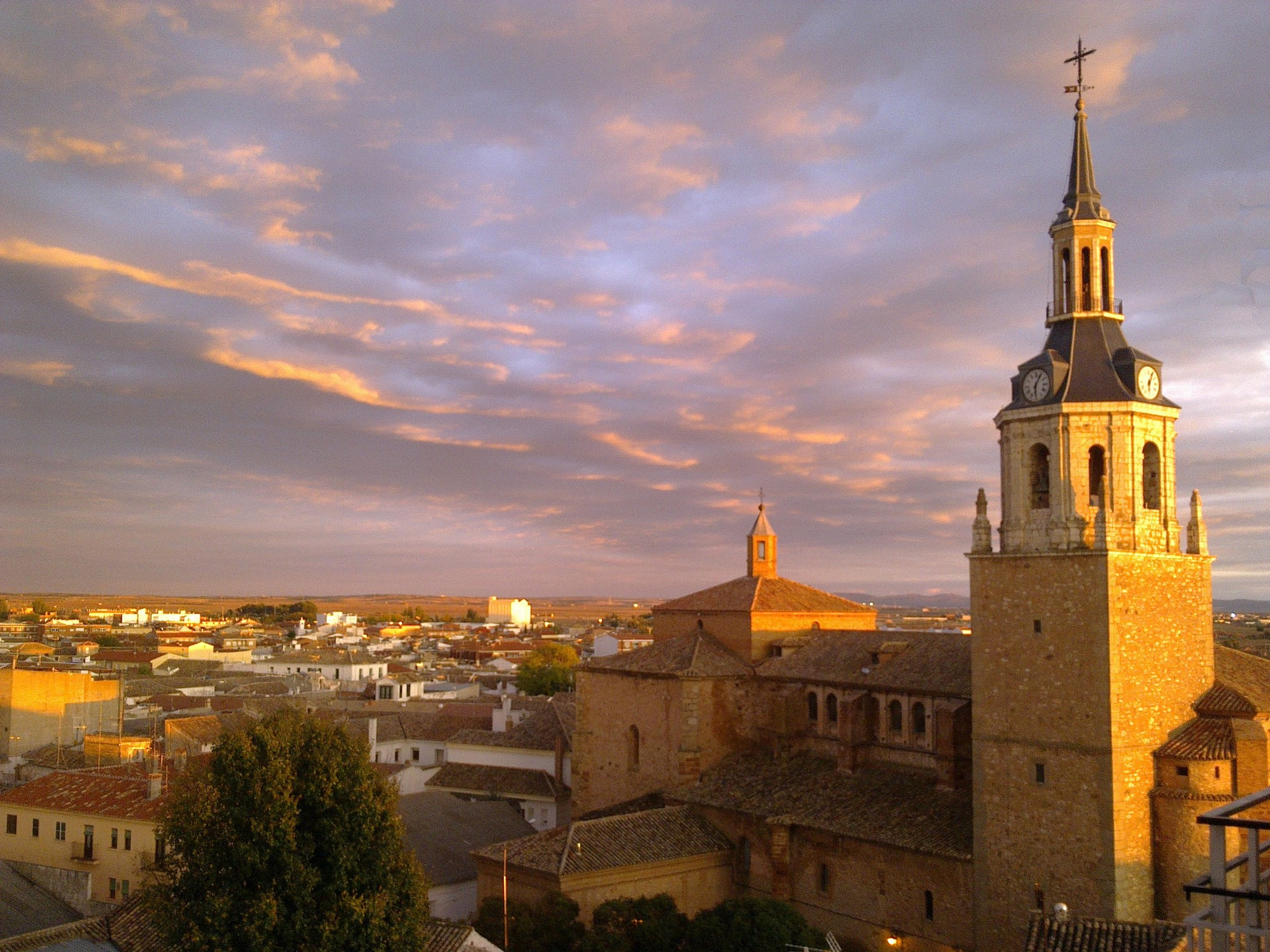 Manzanares atardecer